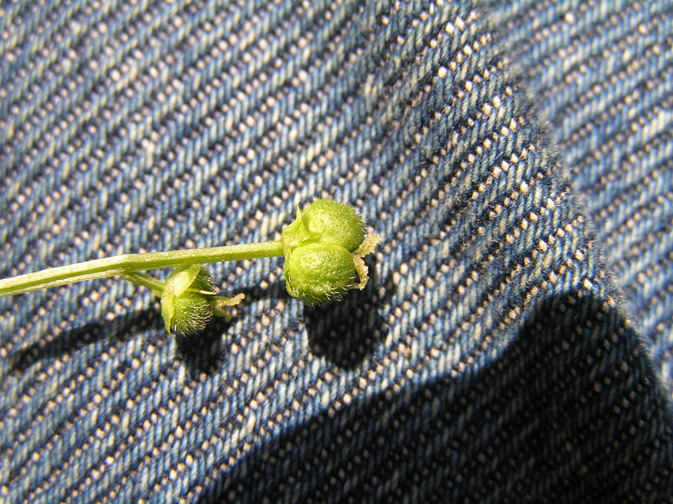 Mercurialis perennis, Choceň, Czech Republic